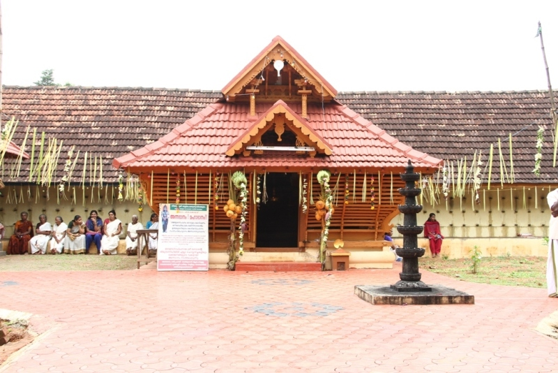 നീണ്ടൂർ സുബ്രമണ്യസ്വാമി ക്ഷേത്രം